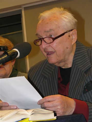 Ludwik Jerzy Kern (1920-2010), Polish writer and translator